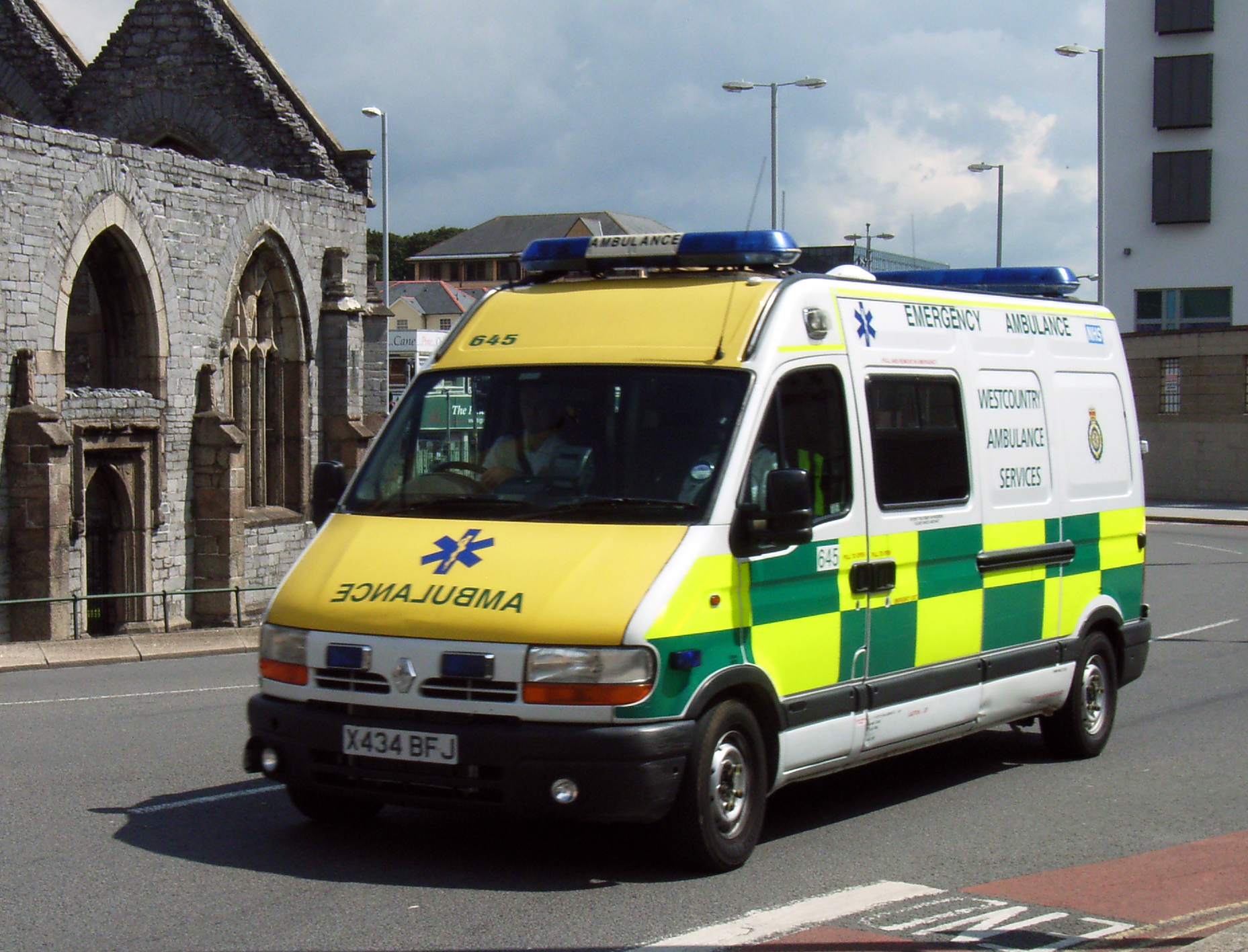 24 July 2007 Plymouth X434BFJ RENAULT MASTER TD LWB AMBULANCE 2799cc (20/09/2000) DIESEL